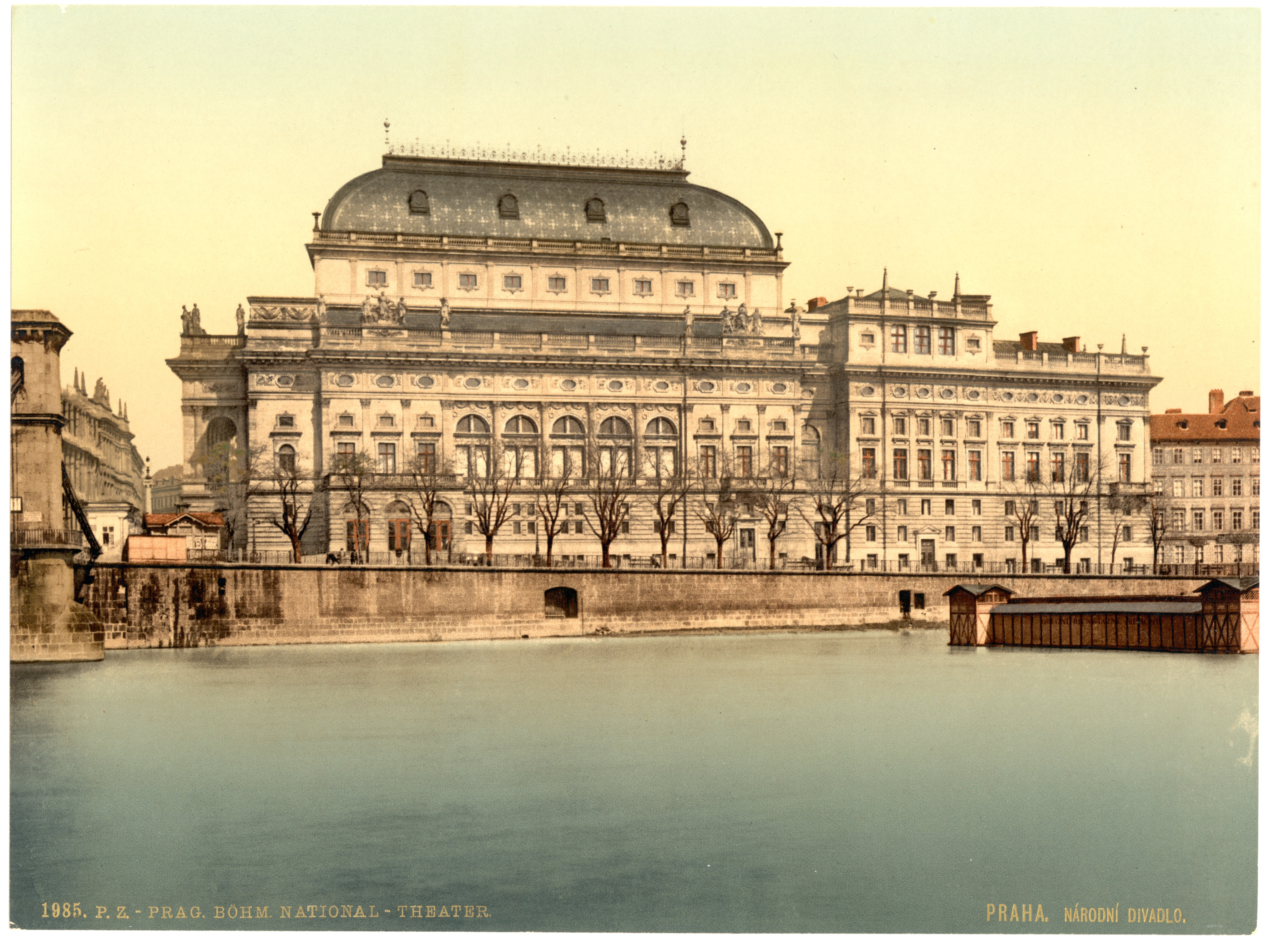 Print no. "1985".; Forms part of: Views of the Austro-Hungarian Empire in the Photochrom print collection.; Title from the Detroit Publishing Co., Catalogue J-foreign section, Detroit, Mich. : Detroit Publishing Company, 1905.